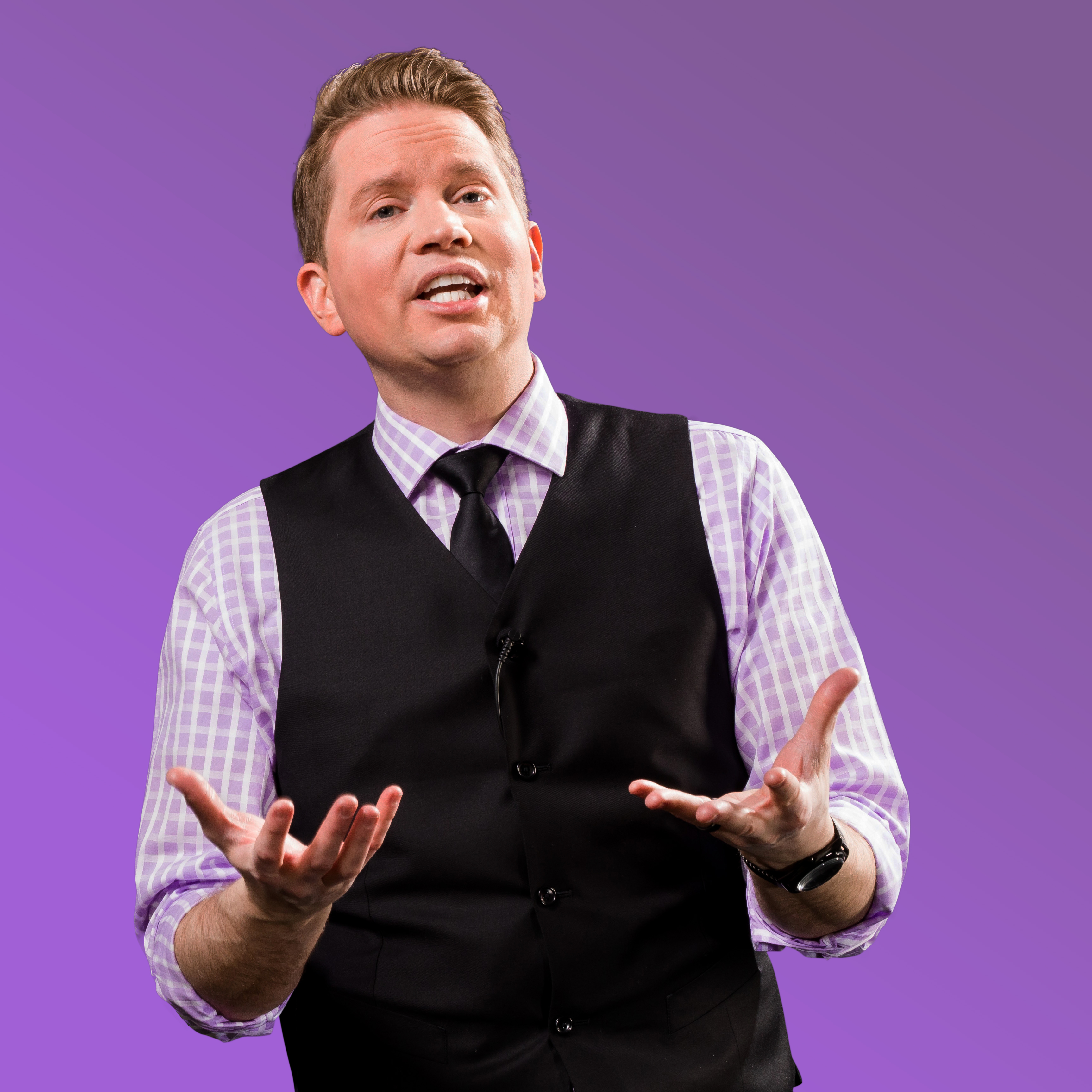 Dave Crenshaw in action- photographer Matt Barr Approved photos for event and media usage.